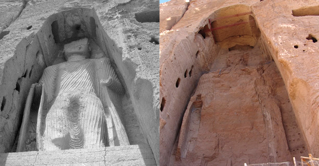 The sjorter Buddha of Bamiyan before (left picture) and after destruction (right). Left version from 8 June 1934, right version 2005.